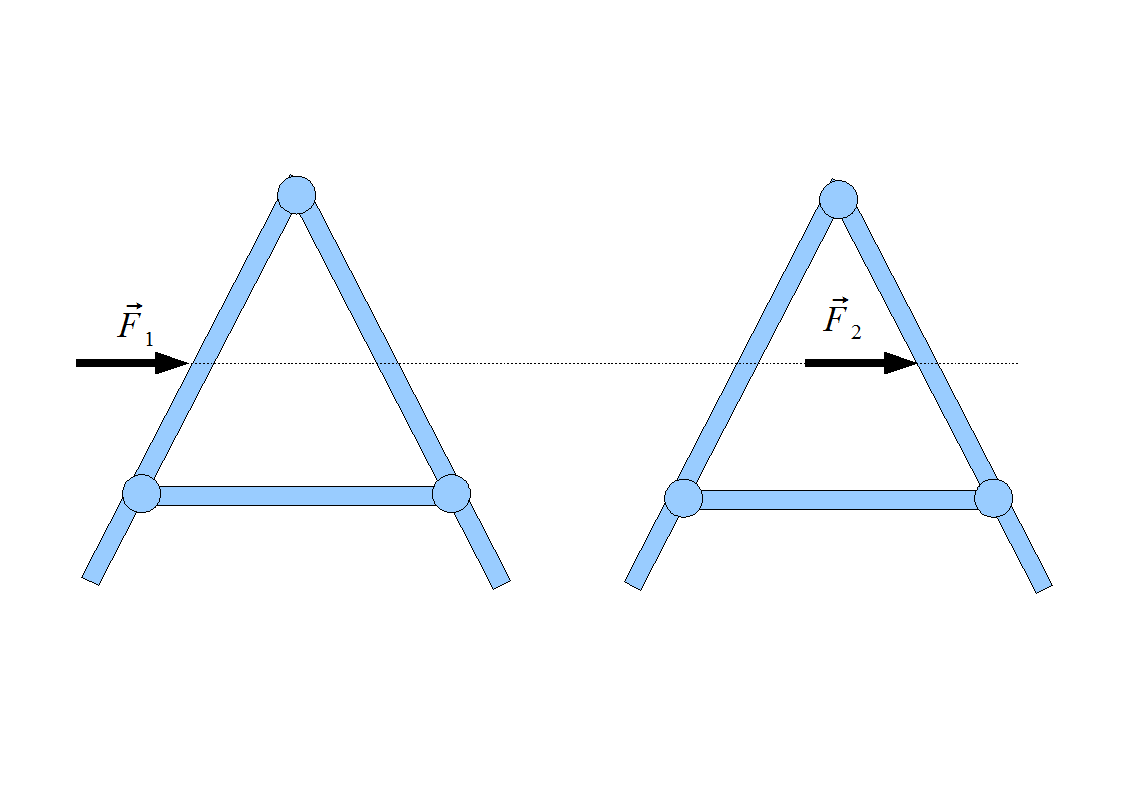 Place of the force on the line of action